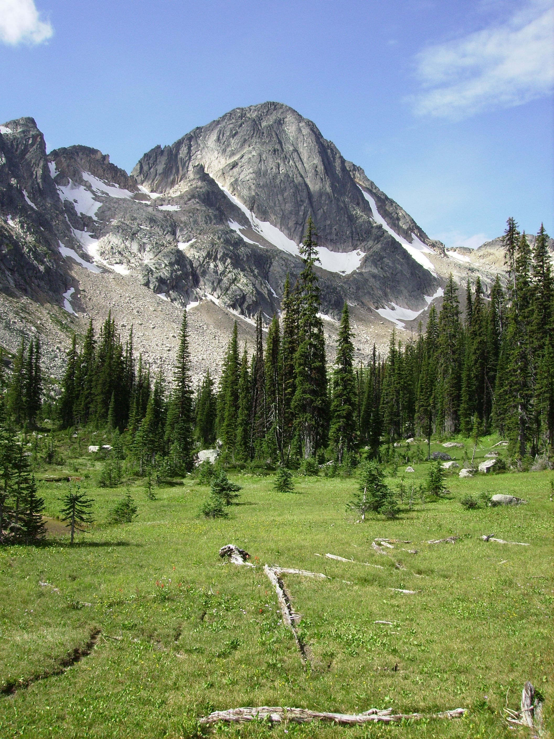 Main peak of the Dunn Peak massif, the Interior of British Columbia, Canada. Shot is from the North/Northeast